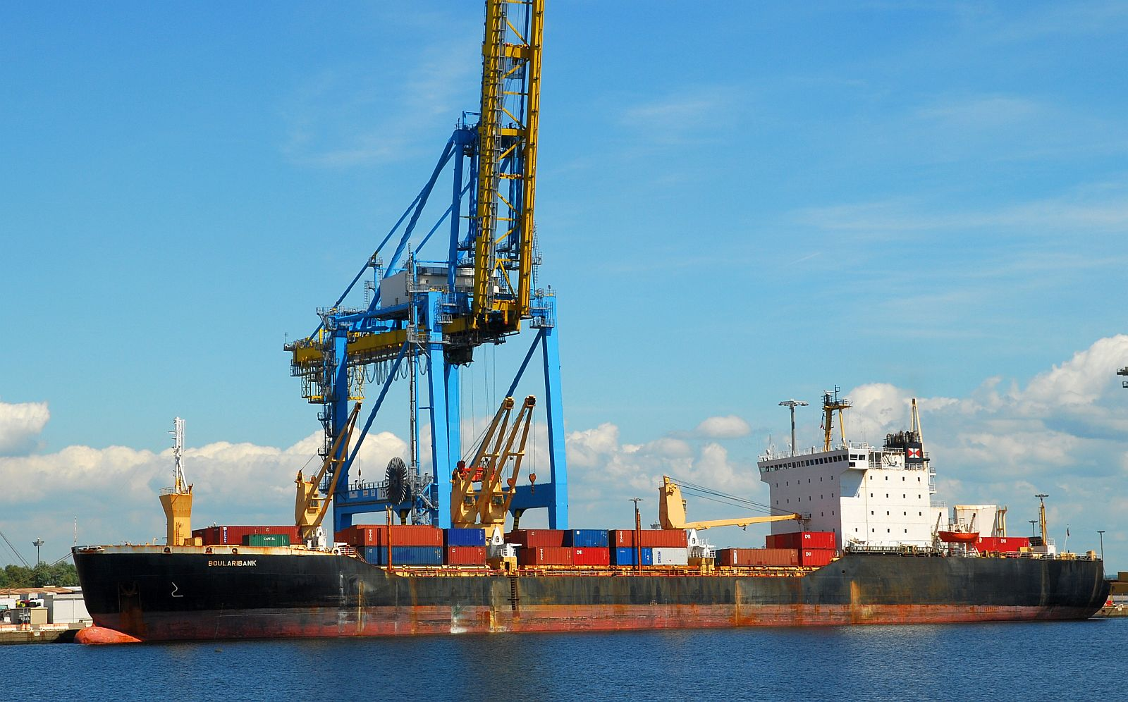 MV Boularibank (IMO 8119168), one of the SA-15 class arctic cargo ships owned by Andrew Weir Shipping Ltd moored in the port of Le Havre on 16 June 2009, shortly before the ship was sold for scrap. The ships, originally designed for year-round service in the Northern Sea Route, were retrofitted with bulbous bows for Bank Line's South Pacific Service.